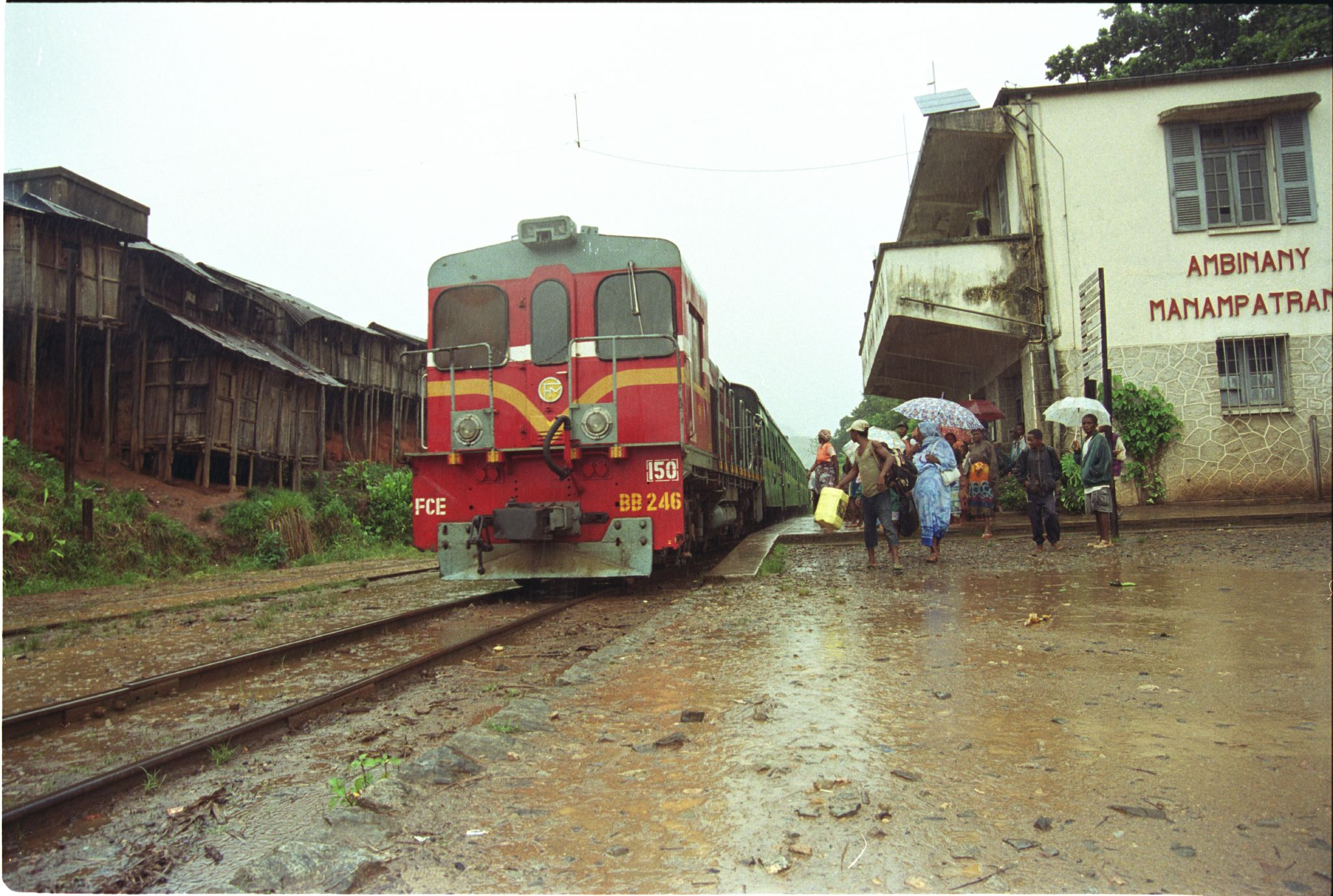 The FCE rail station in Manampatrana, Madagascar. 2004.